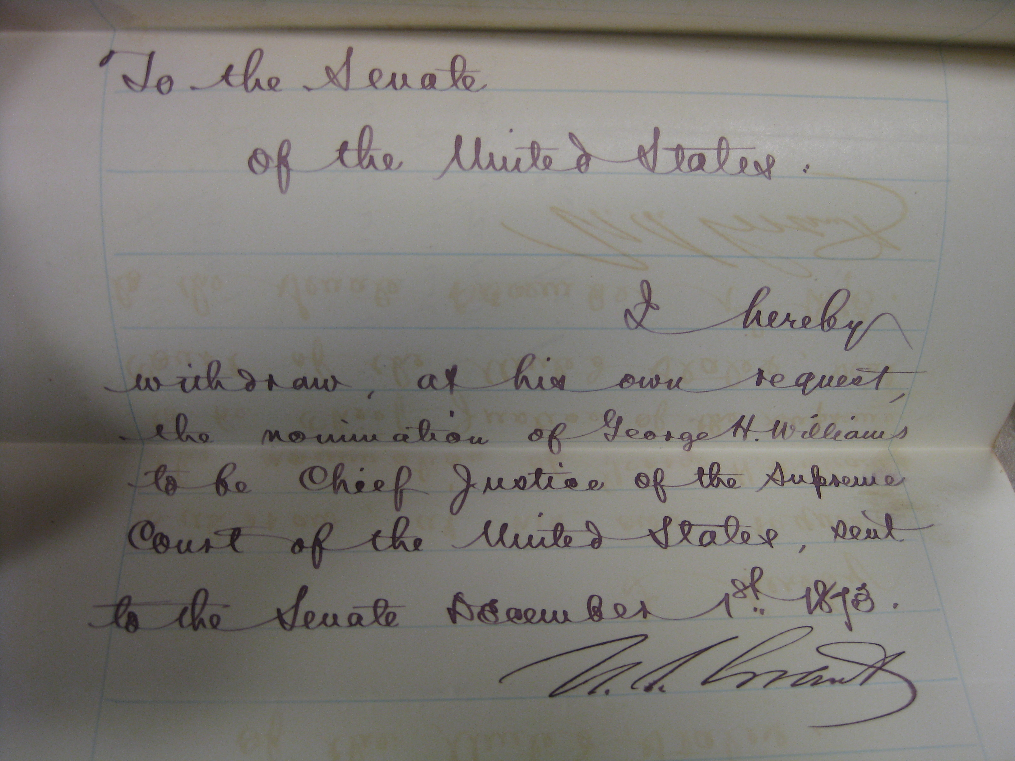 President Ulysses Grant's withdrawal of George H. Williams's Chief Justice nomination. Courtesy of the National Archives and Records Administration.